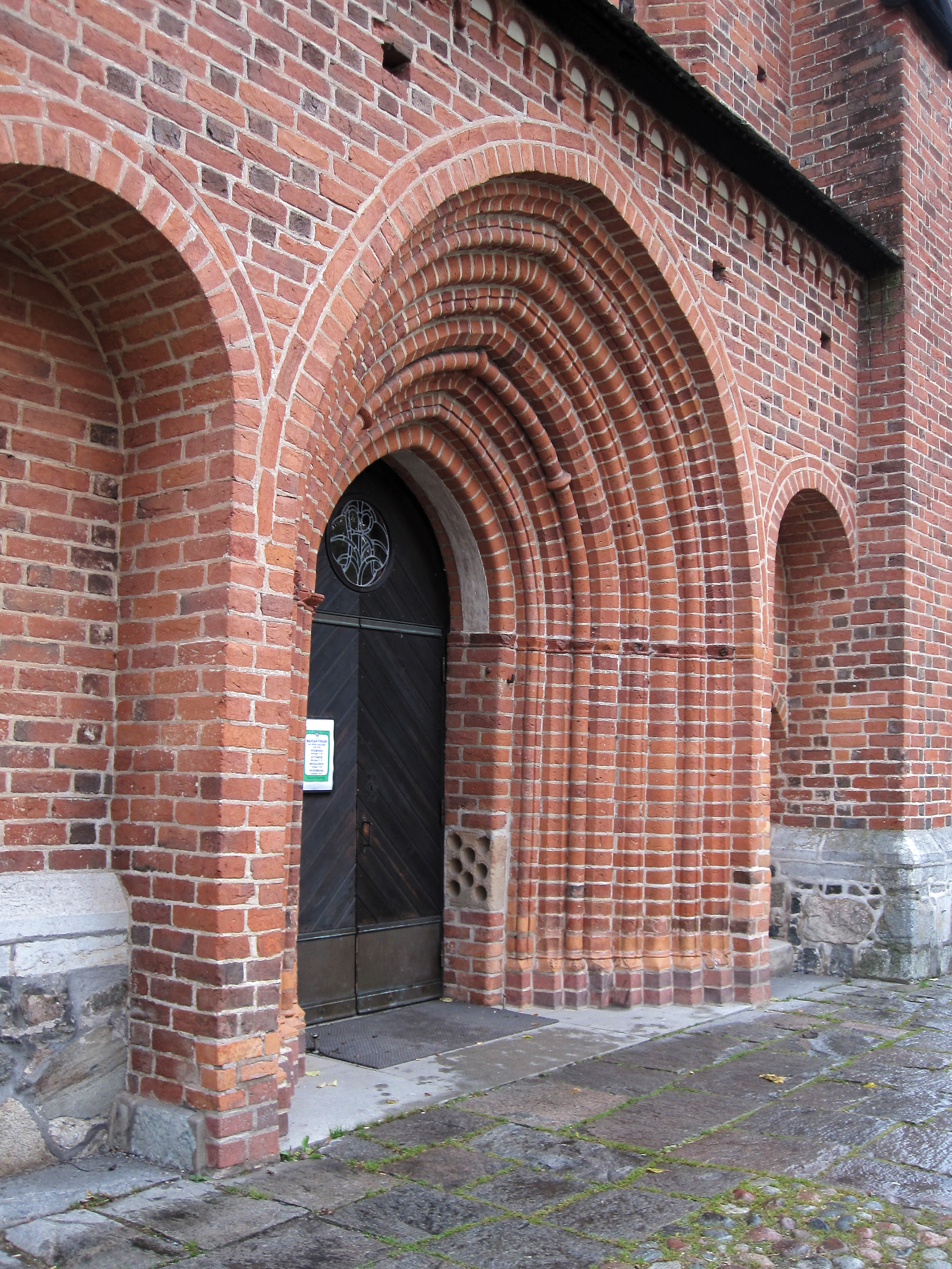 Church of Saint Mary, Sigtuna, Sweden.